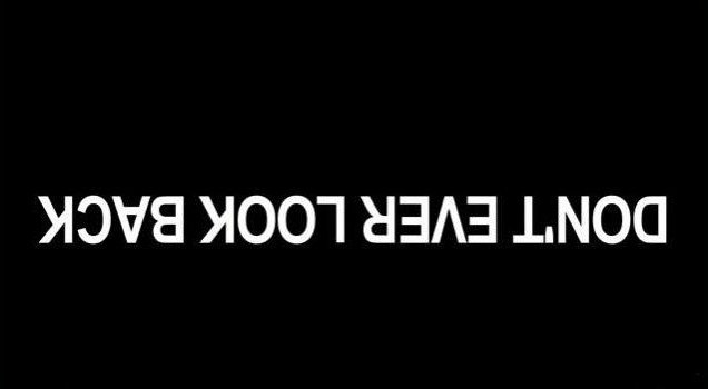 A screenshot of the official lyrics video of Teenage Dream (Katy Perry song)